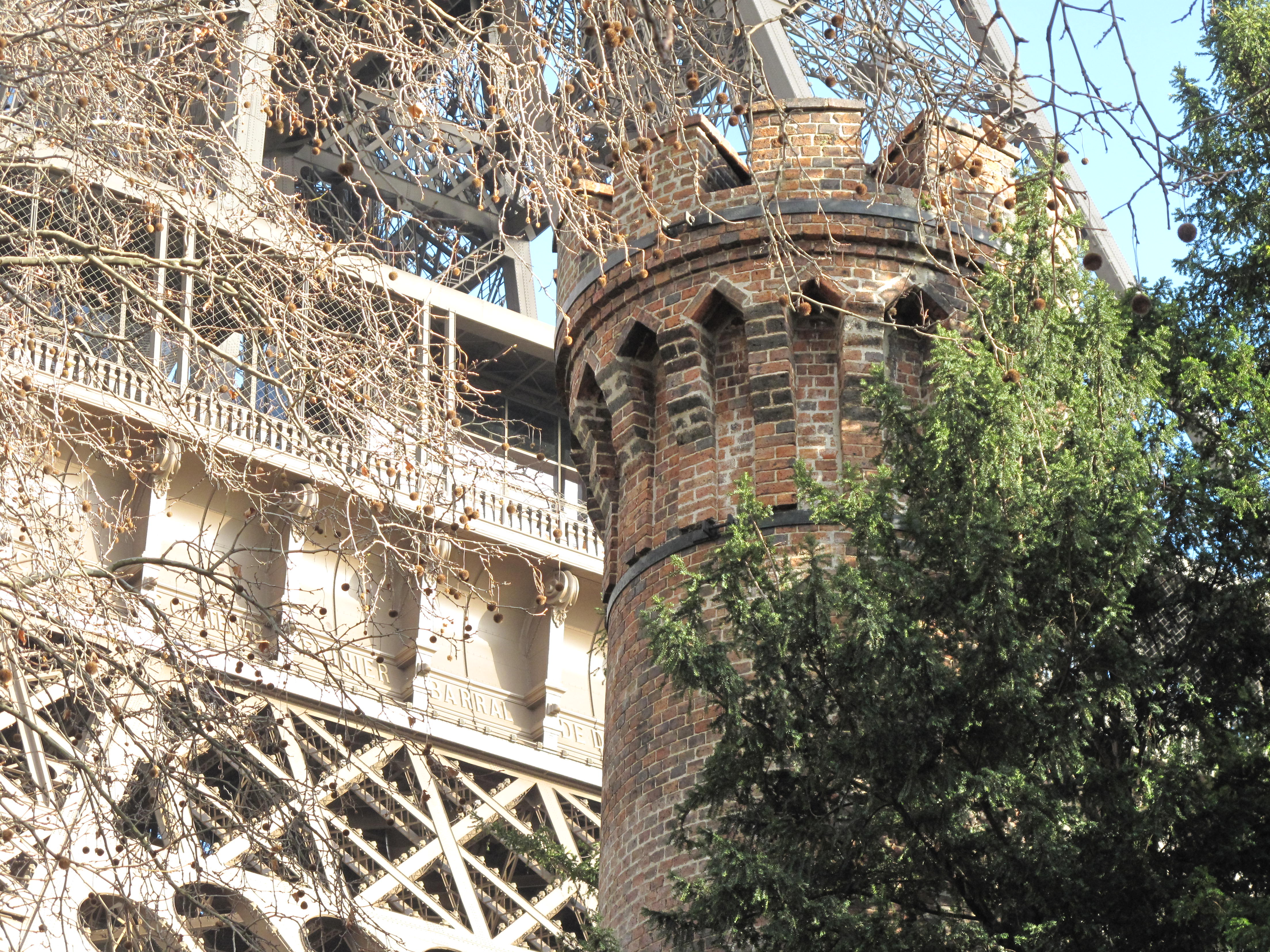 Top of the industrial chimney near Eiffel Tower.